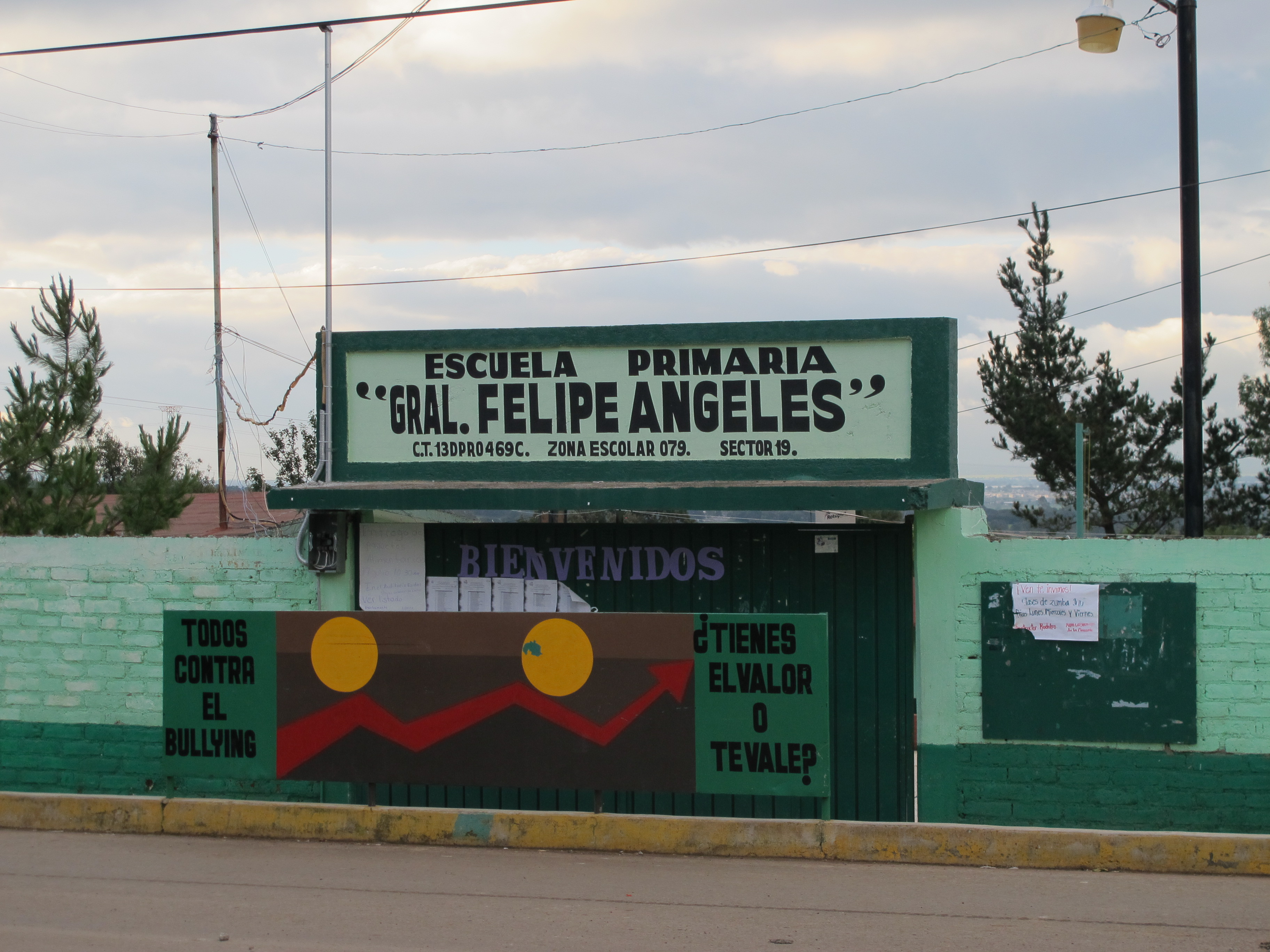 Elementary school "General Felipe Angeles" in the town of Los Romeros, in the Municipality of Santiago Tulantepec, Hidalgo State.